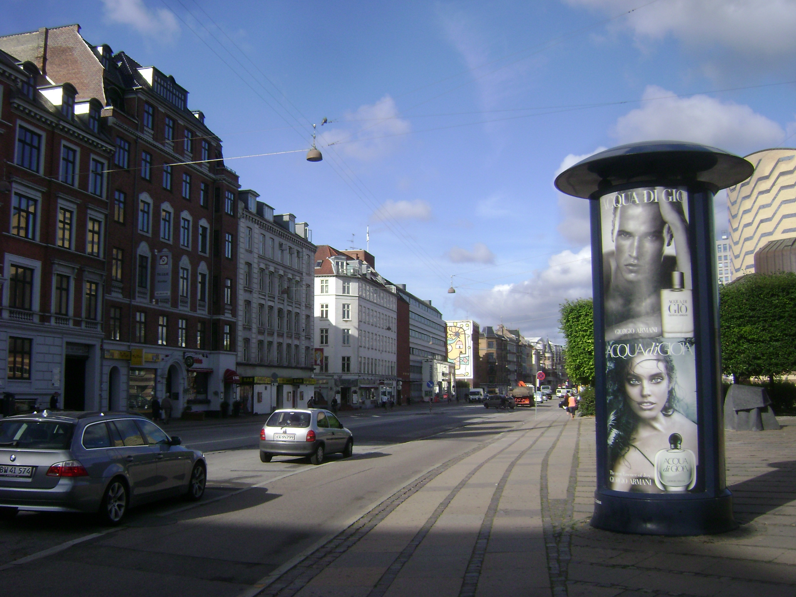 Denmark. Capital Region. Copenhagen